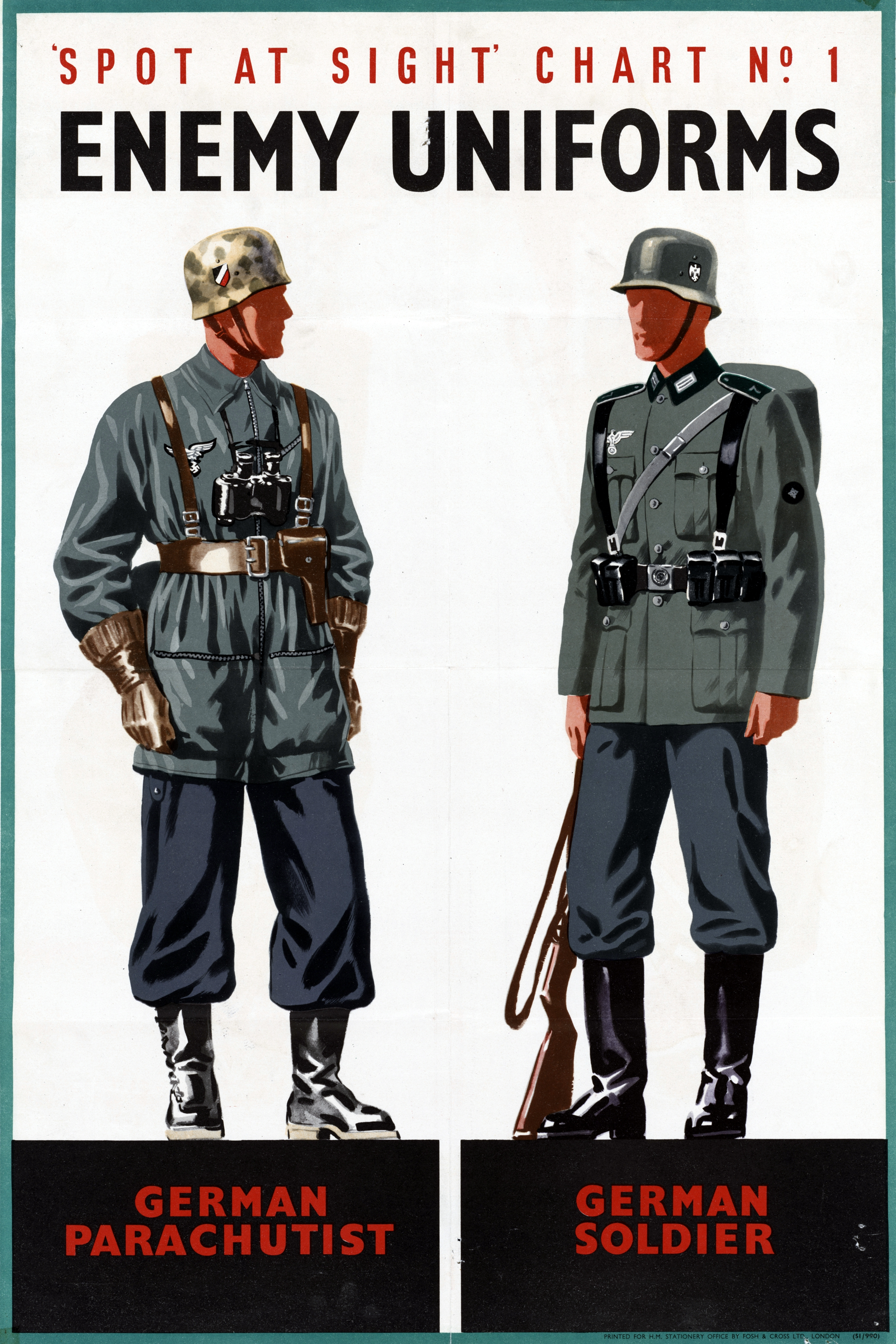 British Second World War Poster "Spot at Sight Chart No. 1 - Enemy Uniforms - German Parachutist - German Soldier". Poster ca. 1942 showing typical uniforms of Luftwaffe paratroopers (Fallschirmjäger) and Heer infantry men, to help British soldiers easily recognise enemy troops within the Wehrmacht, the military forces of Nazi Germany, during World War II.